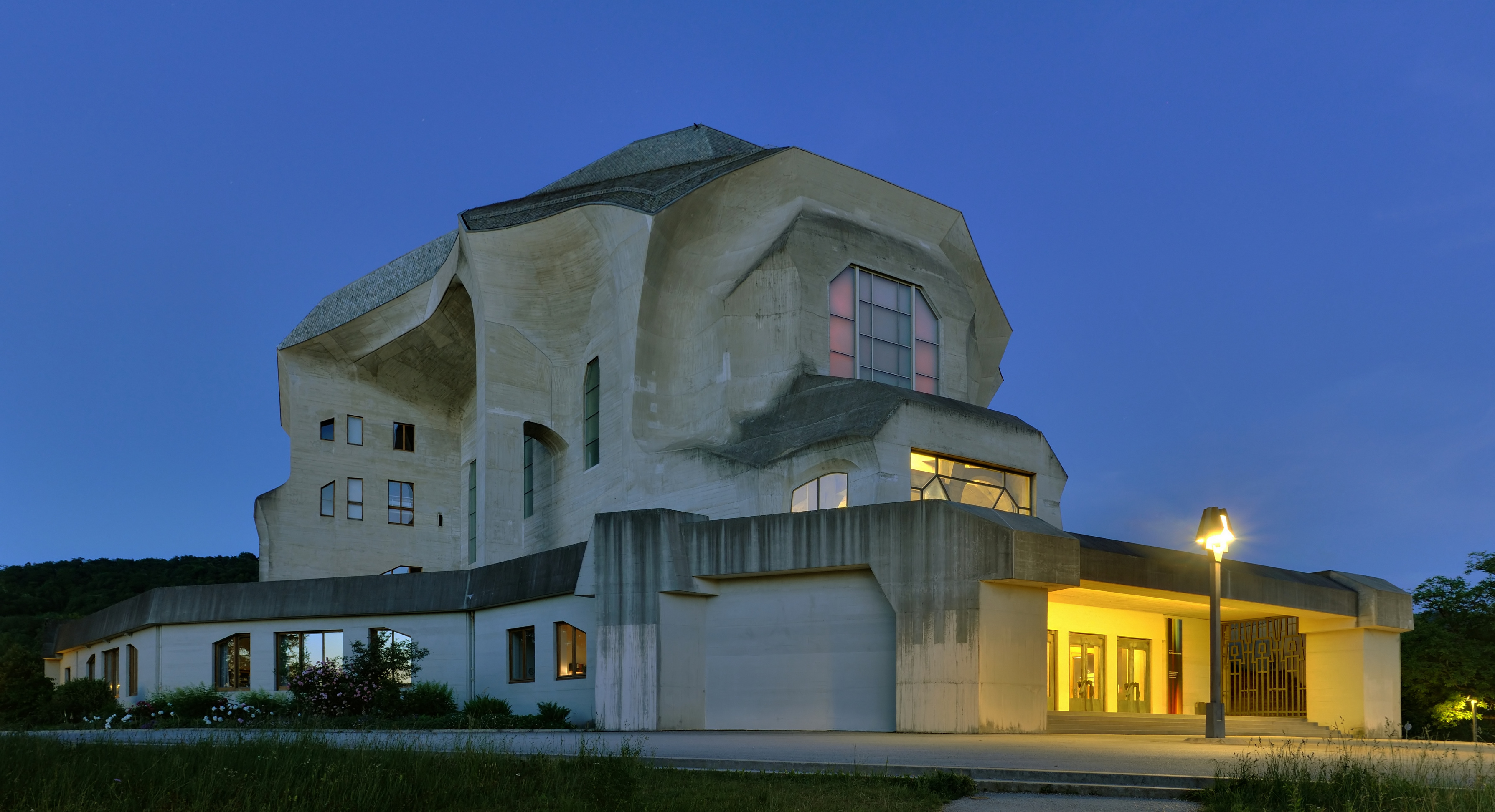 Dornach, Switzland: Goetheanum from northwest